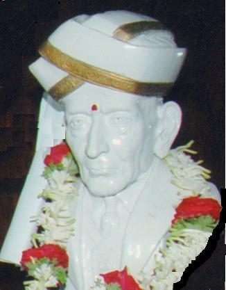 Picture of a marble bust of Late Sir M.Vishveswariah, Dewan of Mysore and recipinet of Bharatratna - the highest civilian honour of India - from my personal album